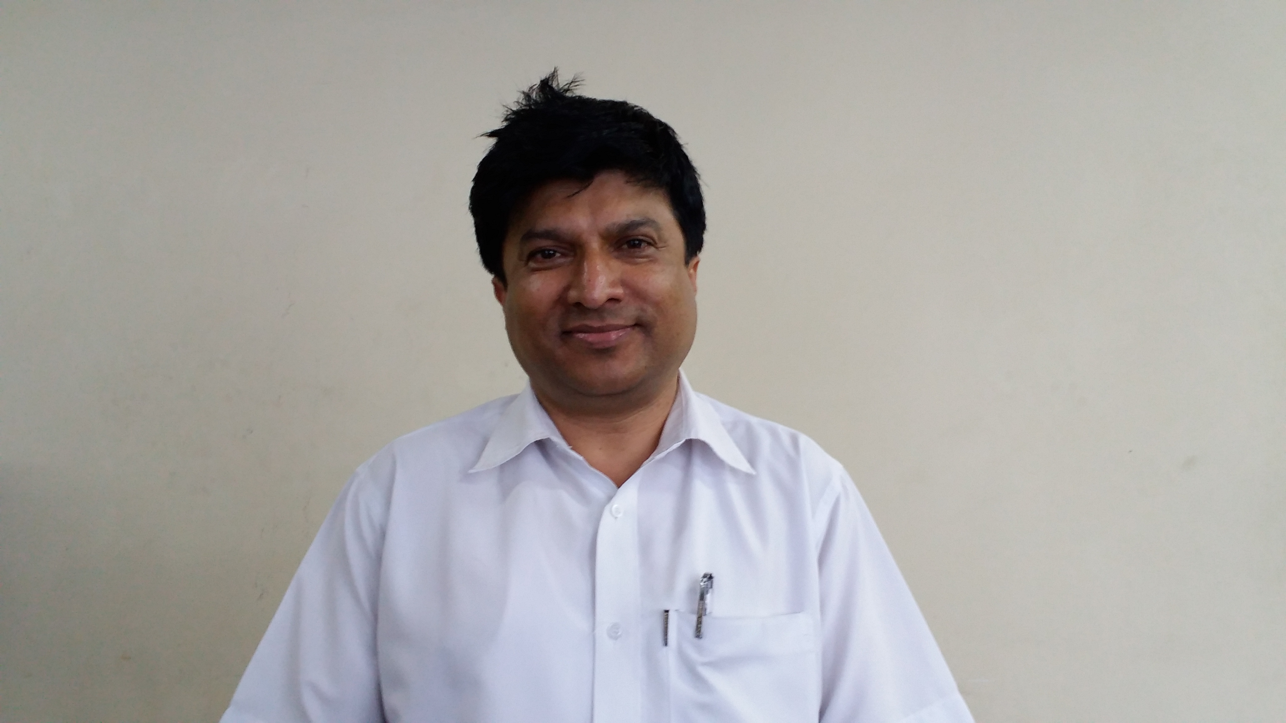 Tika Bhandari is a music composer and singer of Nepali music.